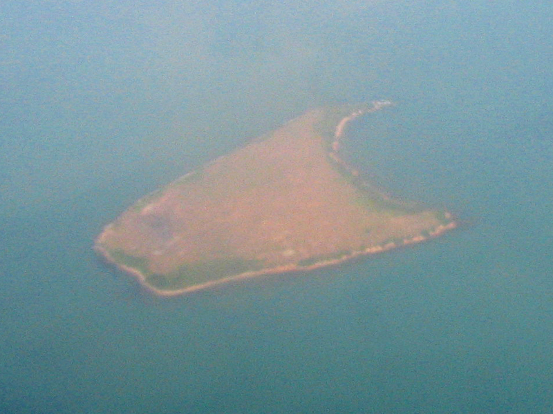 Photo of Tai Mo To